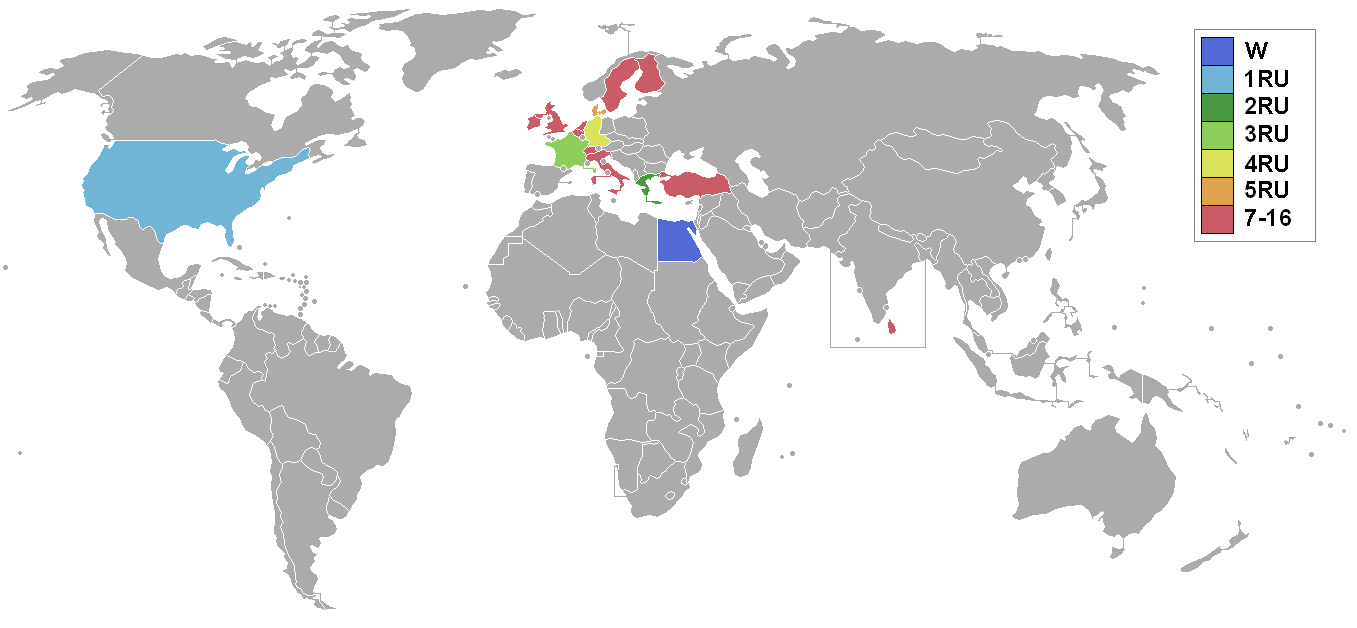 Countries and territories which sent delegates and results.